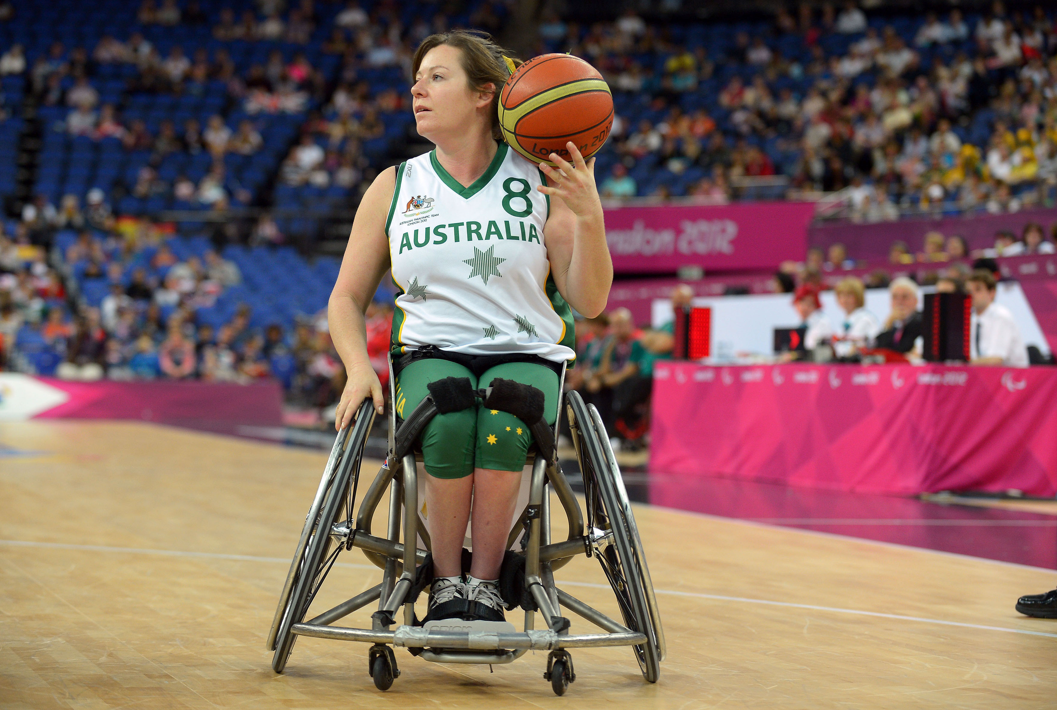 Photograph of Australian Paralympic team member Tina McKenzie at the 2012 Summer Paralympic Games in London